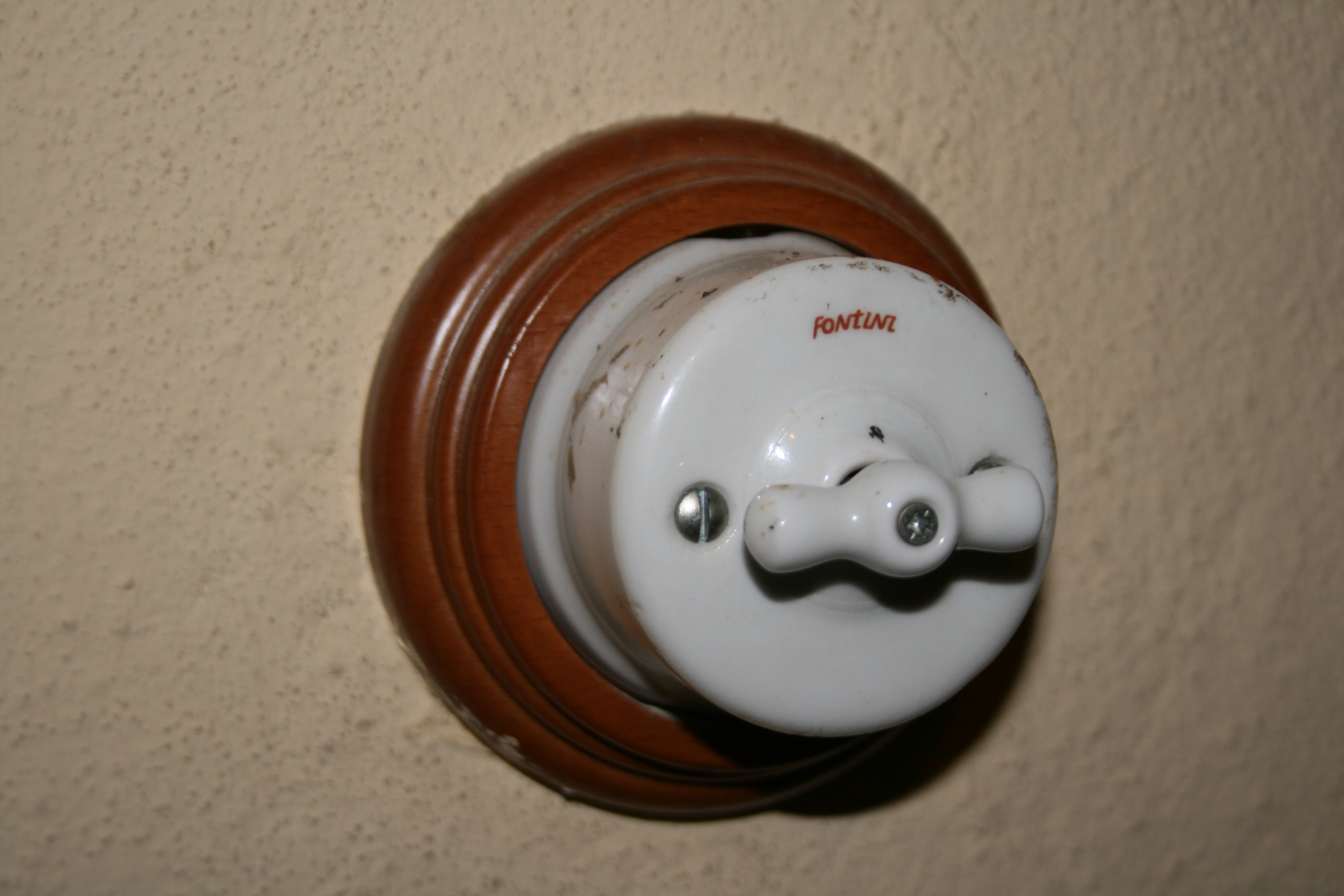 Light switch